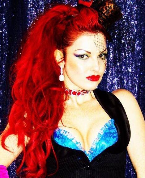 British Recording Artist and Songwriter Coco Star. Performer of "I Need a Miracle"